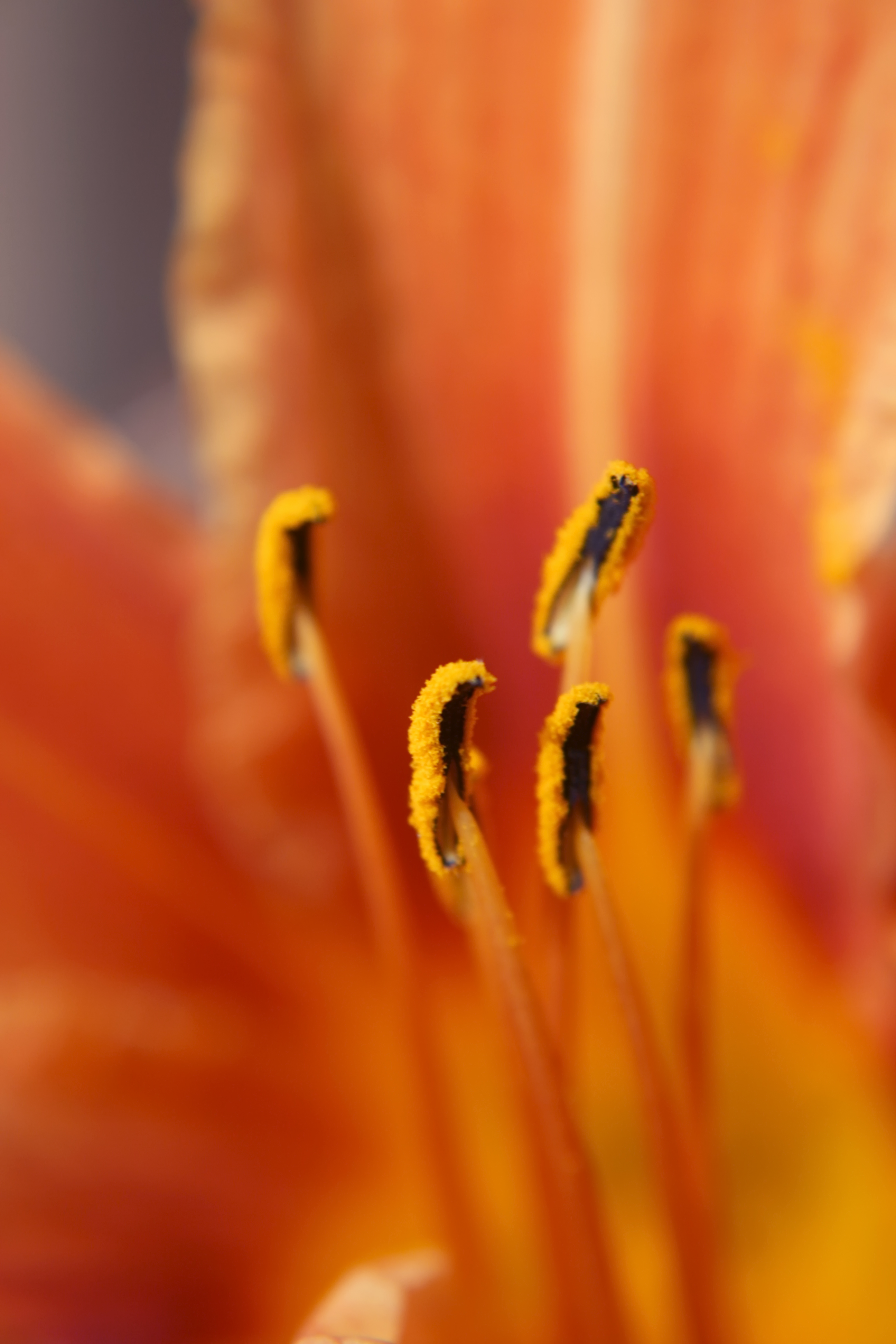 Stamina of an Orange Daylily (Hemerocallis fulva).